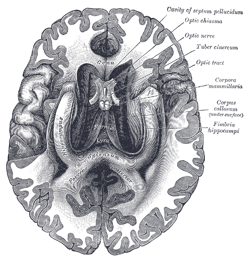 The fornix and corpus callosum from below. (From a specimen in the Department of Human Anatomy of the University of Oxford.)